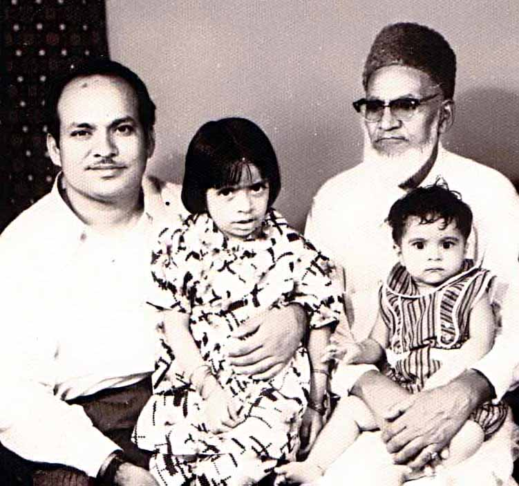 Family Picture